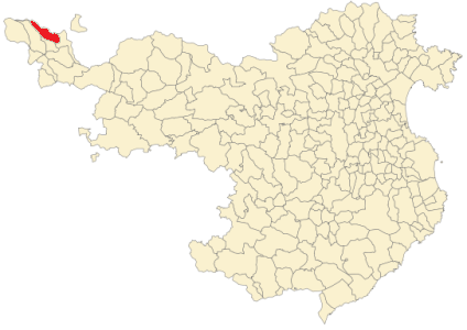 Guils de la Cerdaña